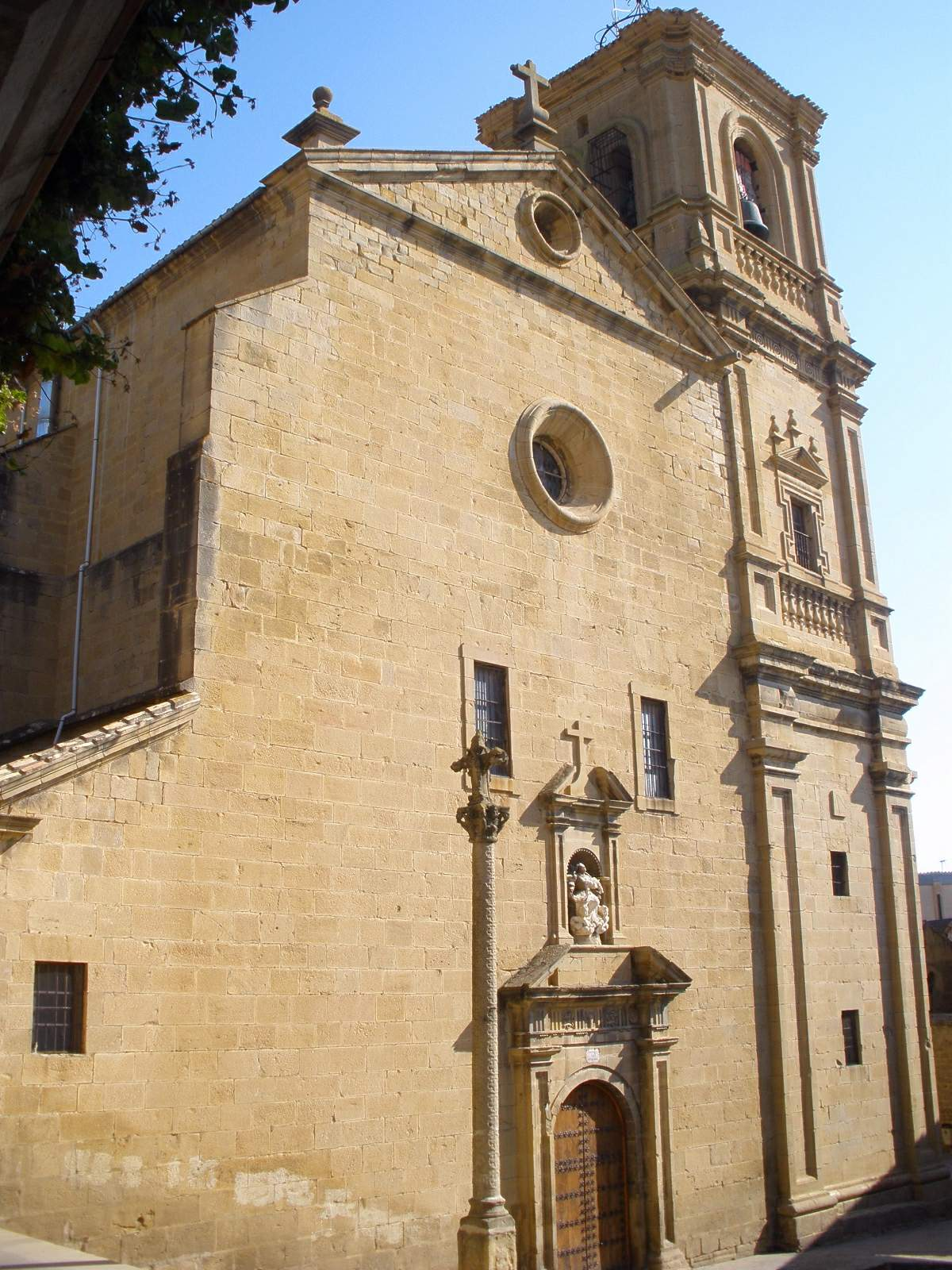 Church of Santa María, Tafalla (Navarra)